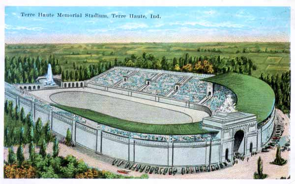 original memorial stadium 1924